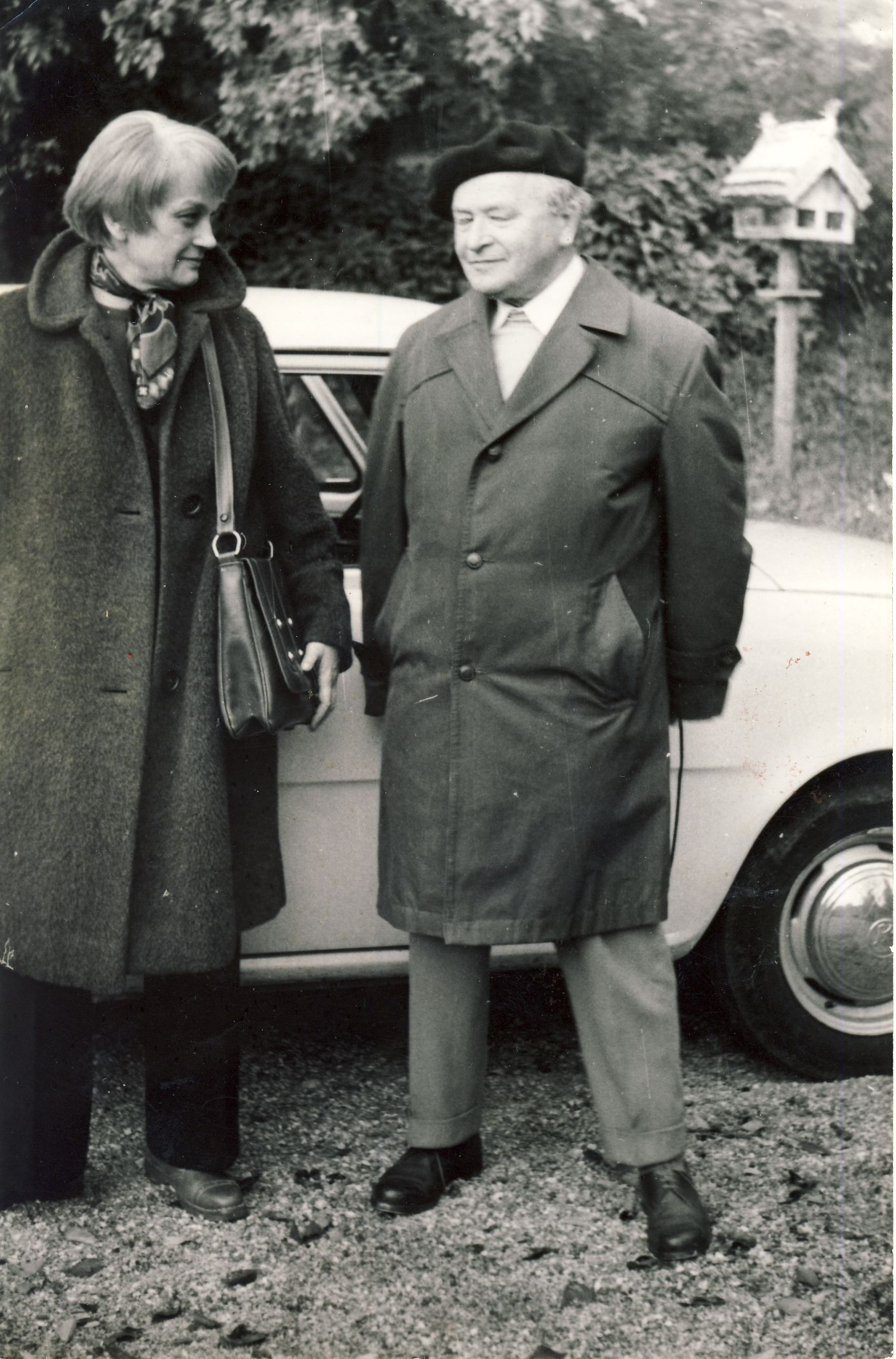 Béla Vihar (Prof. Dr. Judit Vihar's father) with Ágnes Nemes Nagy in 1972